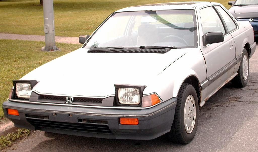 1983-1987 Honda Prelude photographed in Montreal, Quebec, Canada.